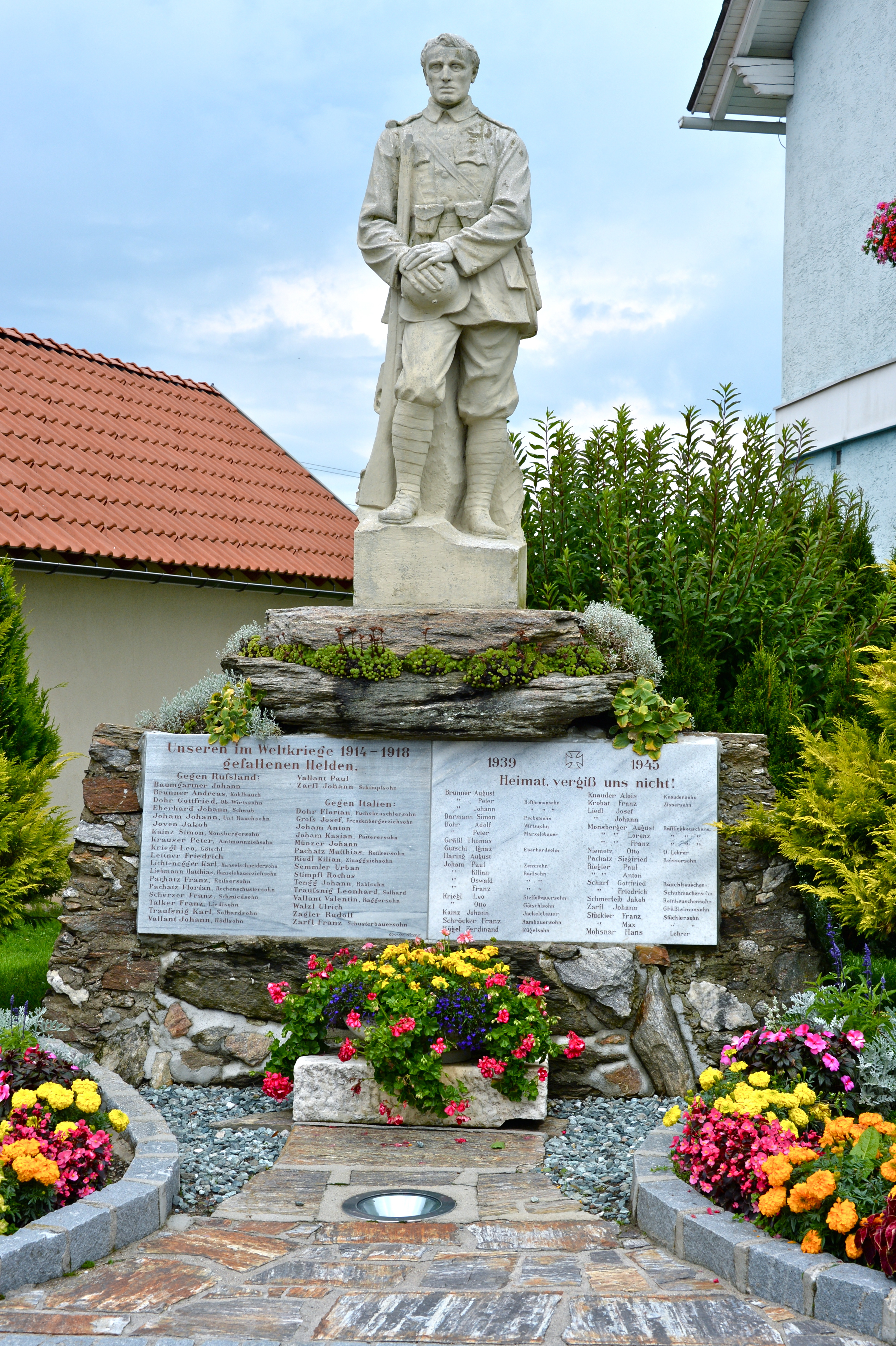 War memorial at Theissenegg, municipality Wolfsberg, district Wolfsberg, Carinthia / Austria / EU